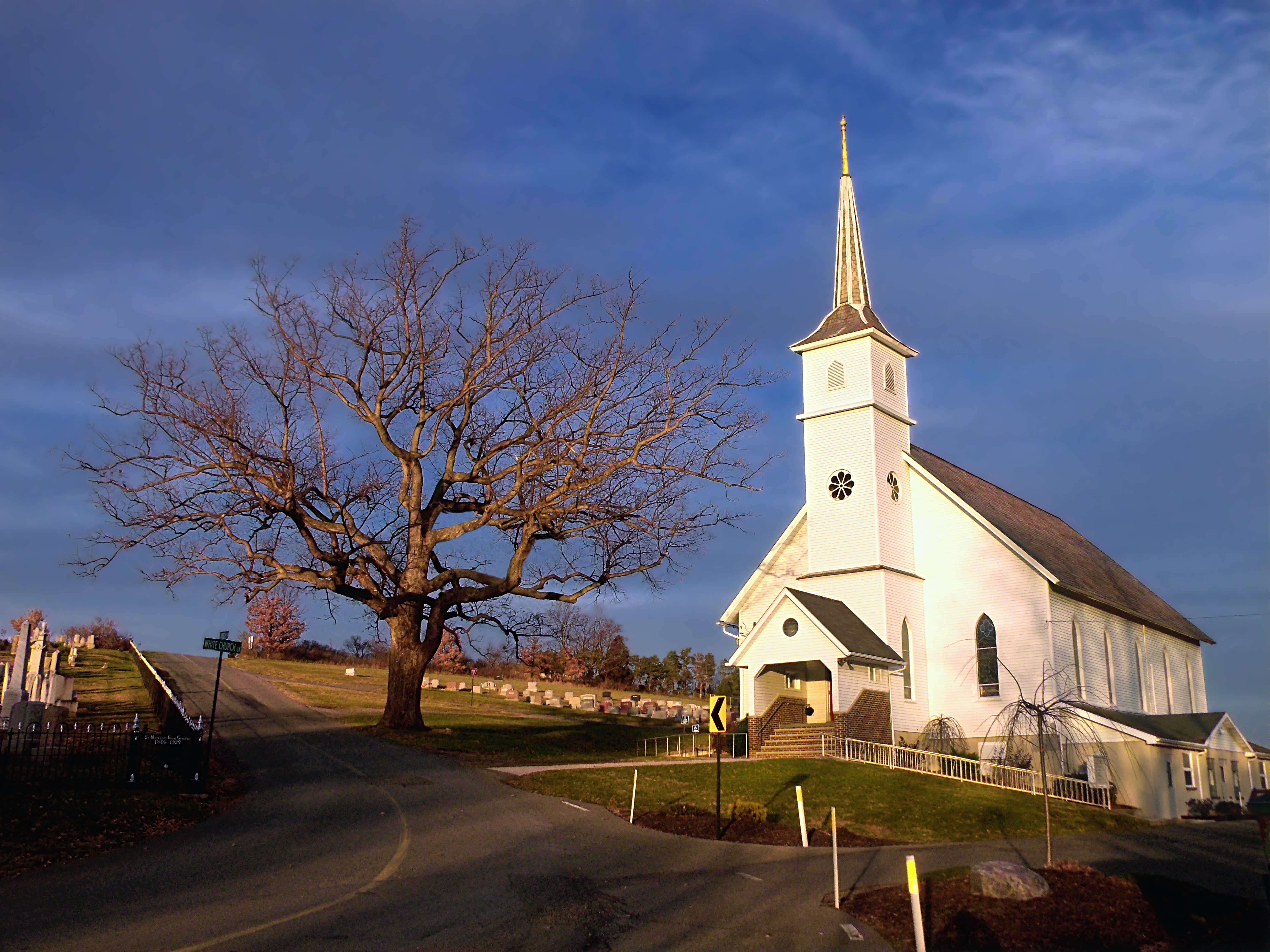 Saint Matthew's Church, Kunkletown, Monroe County. Spring view here.